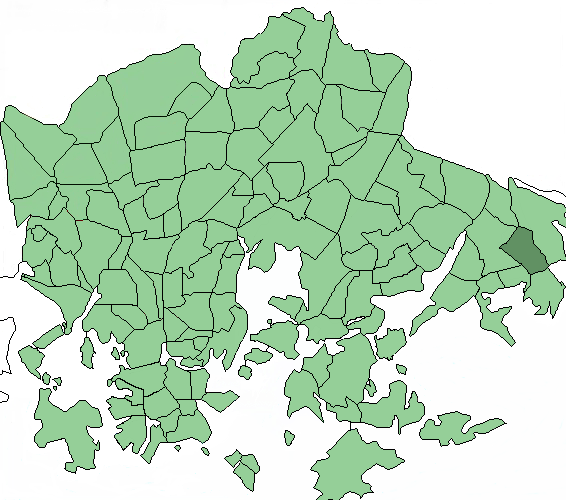 Districts of Helsinki, Nordsjö kartano highlighted.